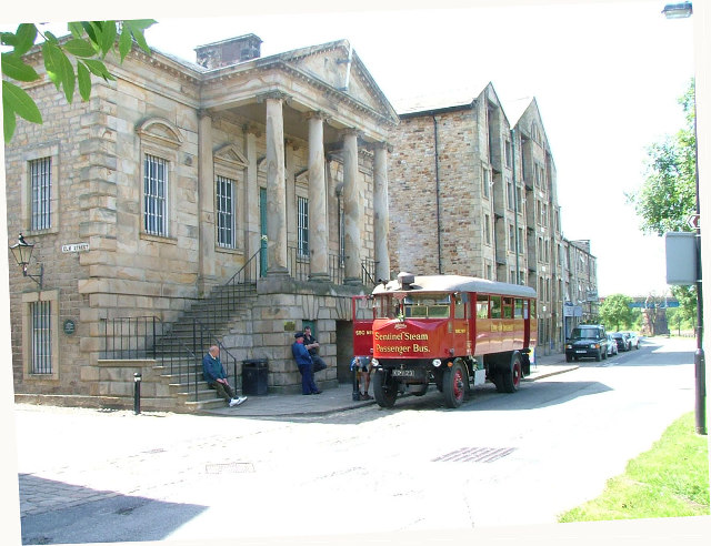 Maritime Museum, south bank of River Lune, Lancaster. The Maritime Museum occupies the former Custom House of 1764. This summer Maude, claimed to be the world's only steam bus, started providing a service connecting Morecambe with tourist attractions in Lancaster and Carnforth. SD474622.